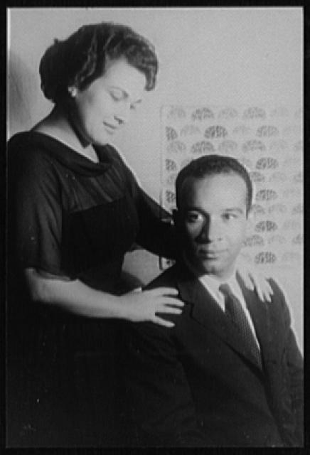 Title: Portrait of Marilyn Horne and Henry Lewis Abstract/medium: 1 photographic print : gelatin silver.